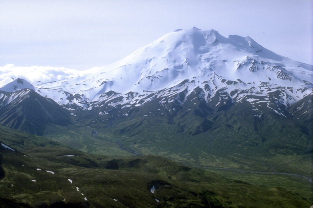 View, looking southeast, of 2,067-metre (6,781 ft) Chiginagak volcano on the Alaska Peninsula. U.S. Geological Survey photograph, date unknown.